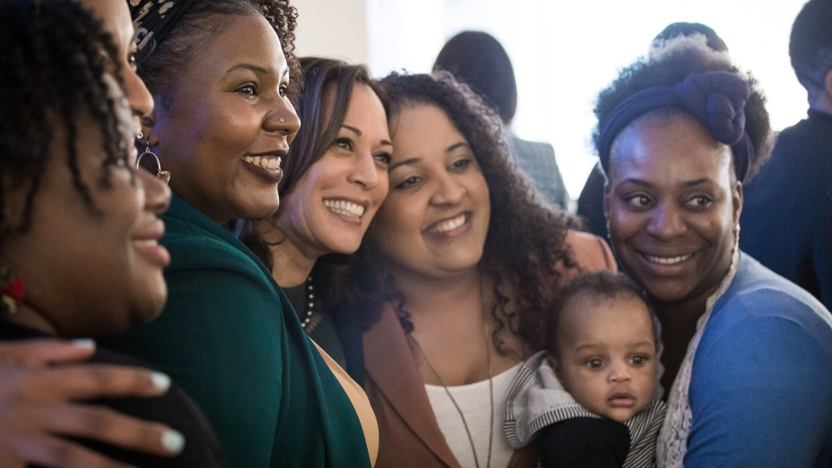 I just wrapped up hosting a gathering on the Black maternal health crisis. We must speak the uncomfortable truth that too often, Black women are not taken seriously when they speak about their pain. This is a public health crisis and it's time we came together to address it.